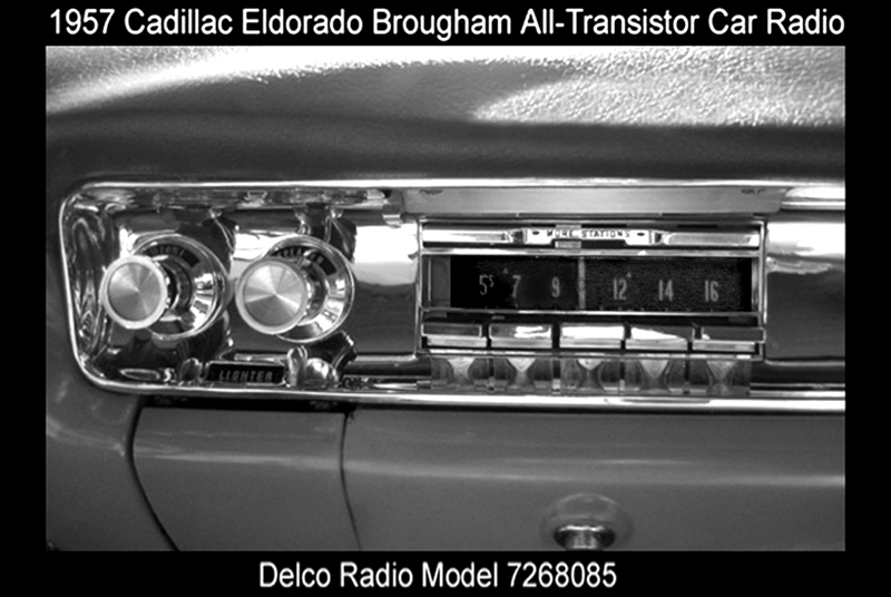 This is an all-transistor car radio, that was developed by GM's Delco Radio (Model 7268085) for the 1957 Cadillac Eldorado Brougham car models. It used 13 transistors and was available as a standard feature, only on the limited production 1957 Cadillac Eldorado Brougham car models.